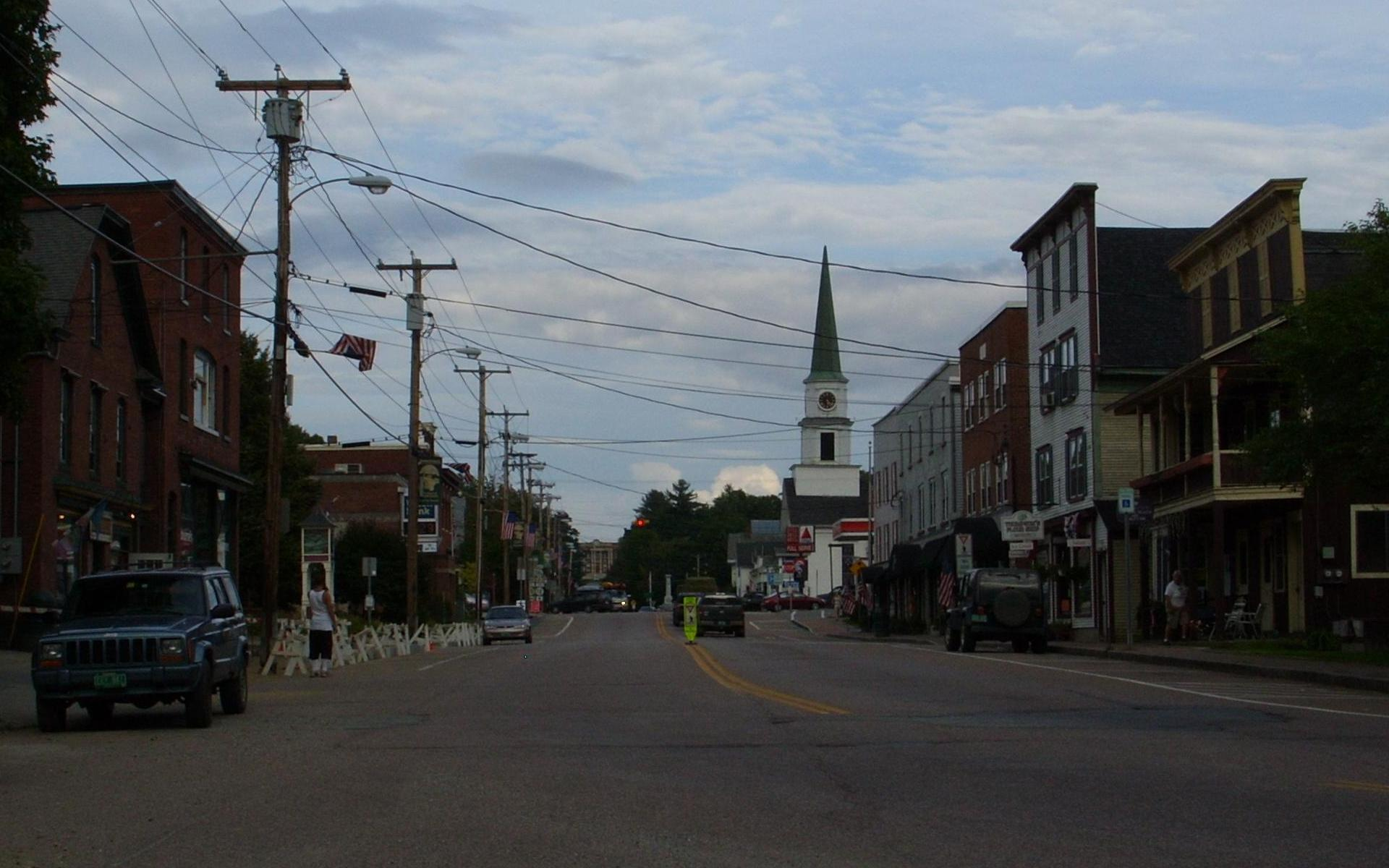 Downtown Morrisville, Vermont, looking east along Main Street (Vermont Route 100/15A/12)